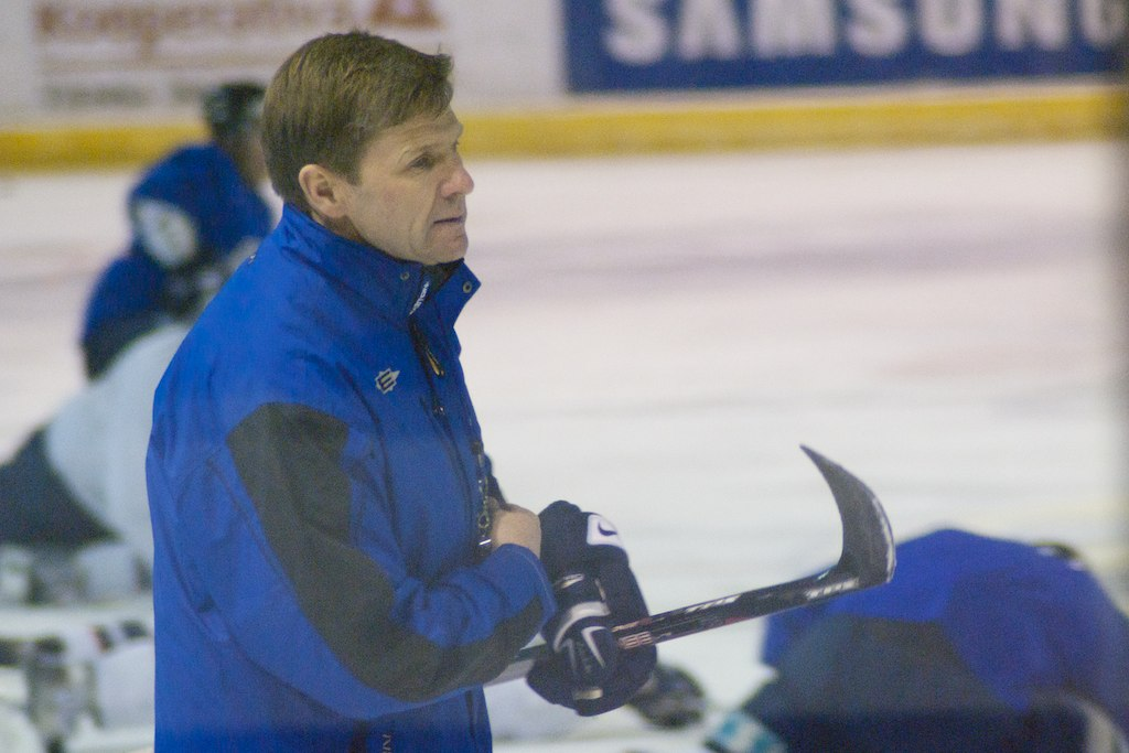 Rostislav Čada in 2010